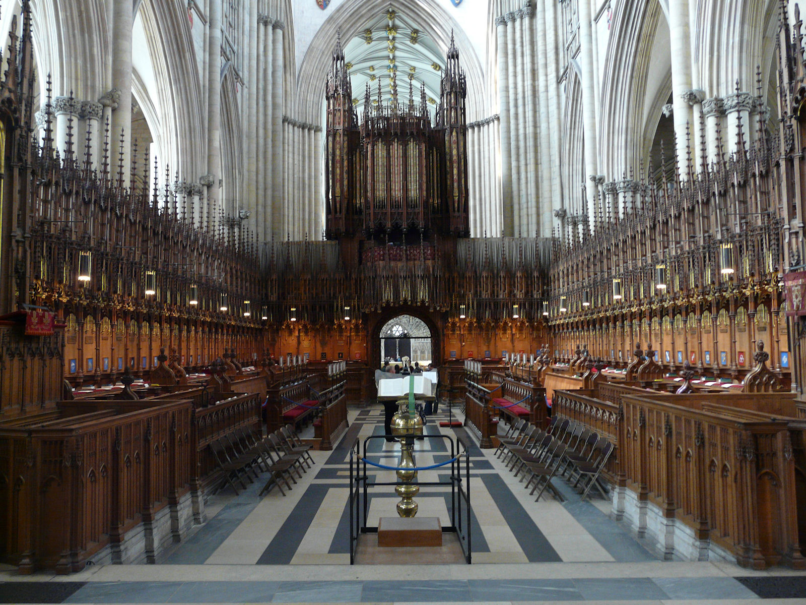 Choir area in York Minster, York, England